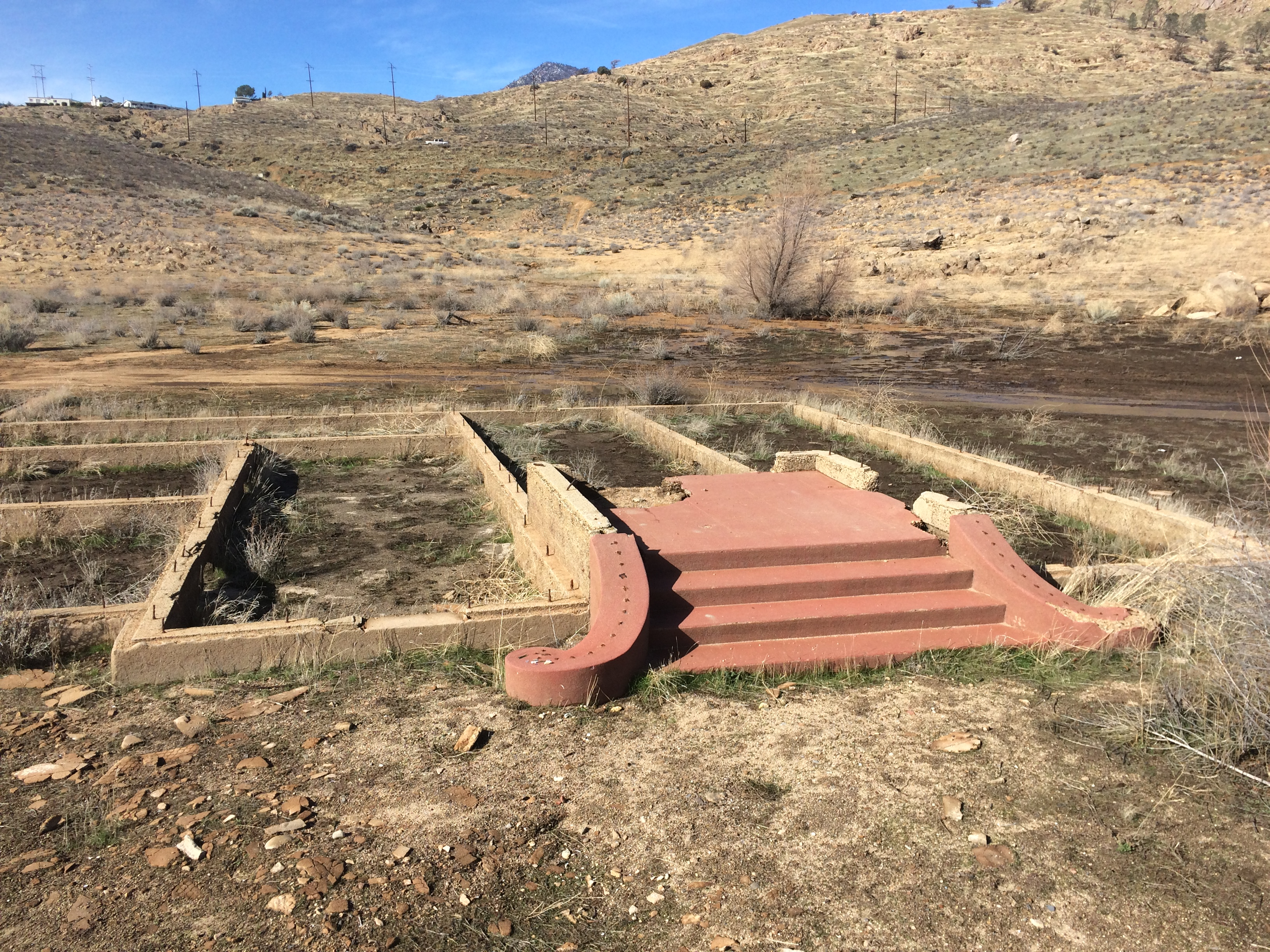 Remains of the grammar school in Old Kernville, CA, currently under Lake Isabella.